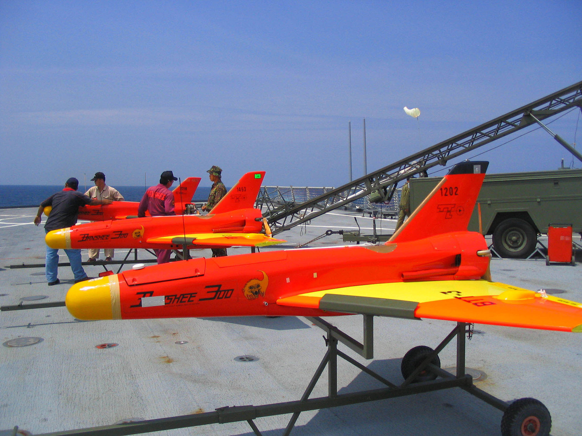 A team of Royal Brunei Armed Forces military and civilian contractors prepare "Banshee" unmanned drones for launch from the U.S. Navy's dock landing ship USS Fort McHenry (LSD 43). The drones are used as targets while conducting underway gunnery practice during the Brunei phase of exercise Cooperation Afloat Readiness and Training (CARAT). CARAT is a regularly scheduled series of bilateral military training exercises with several Southeast Asia nations designed to enhance the interoperability of the respective sea services. Location: South China Sea